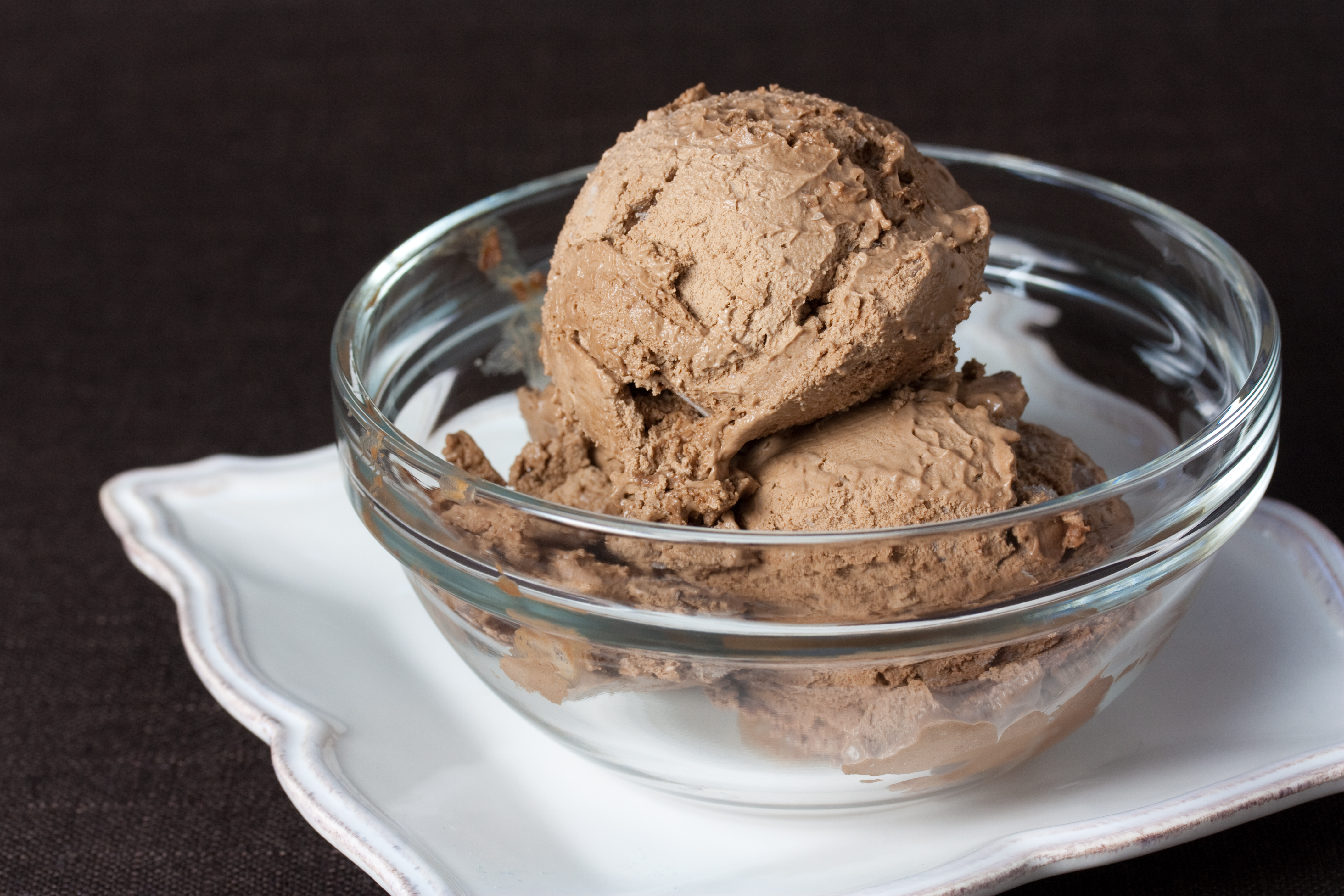 Raw Ice Cream Company Vegan Chocolate Icecream